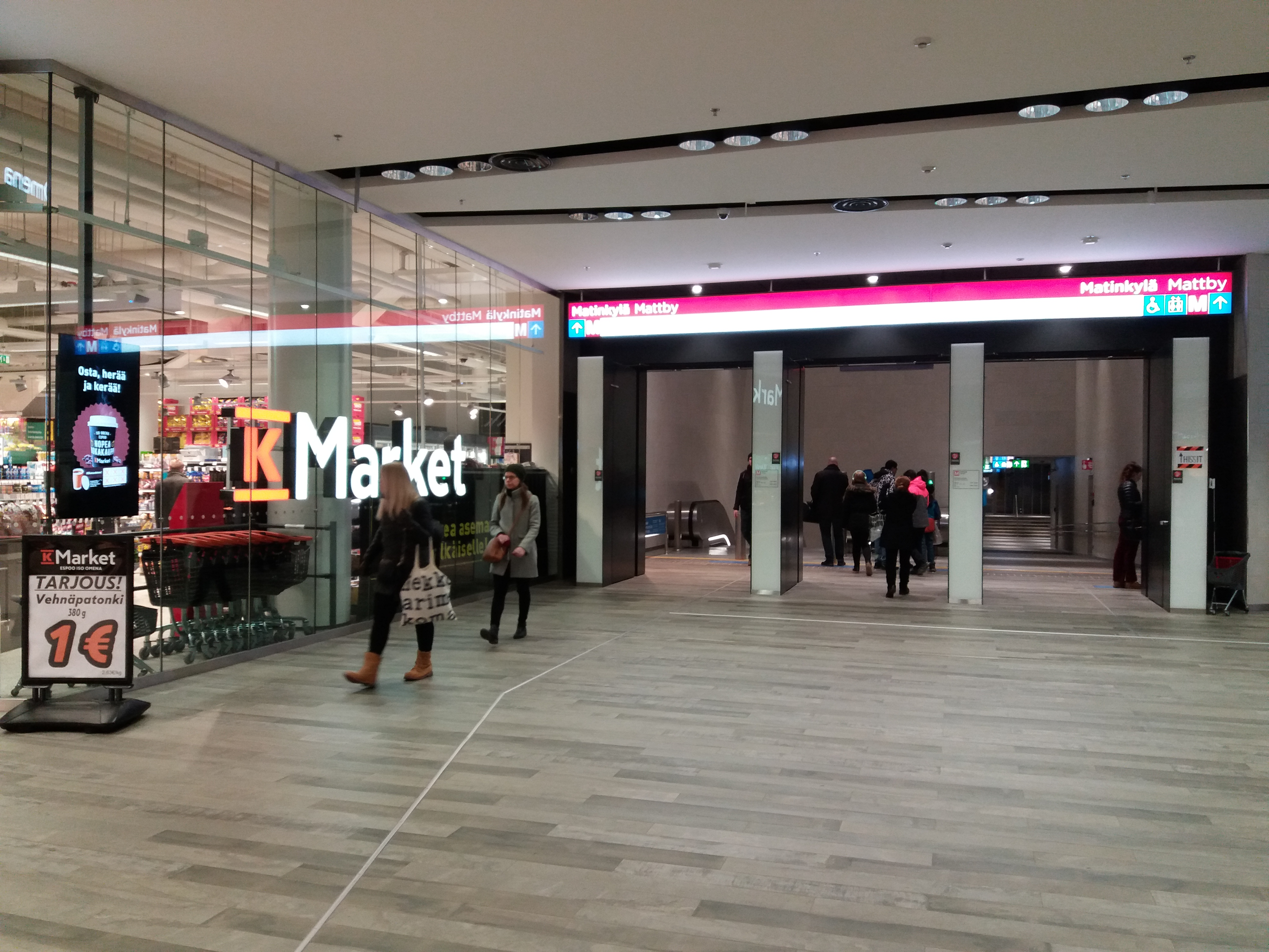 The entrance of Matinkylä metro station in Iso Omena shopping mall, Espoo, Finland